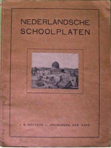 Nederlandsche Schoolplaten - J. B. Wolters - Groningen, Den Haag Wolters - catalogue, 1927